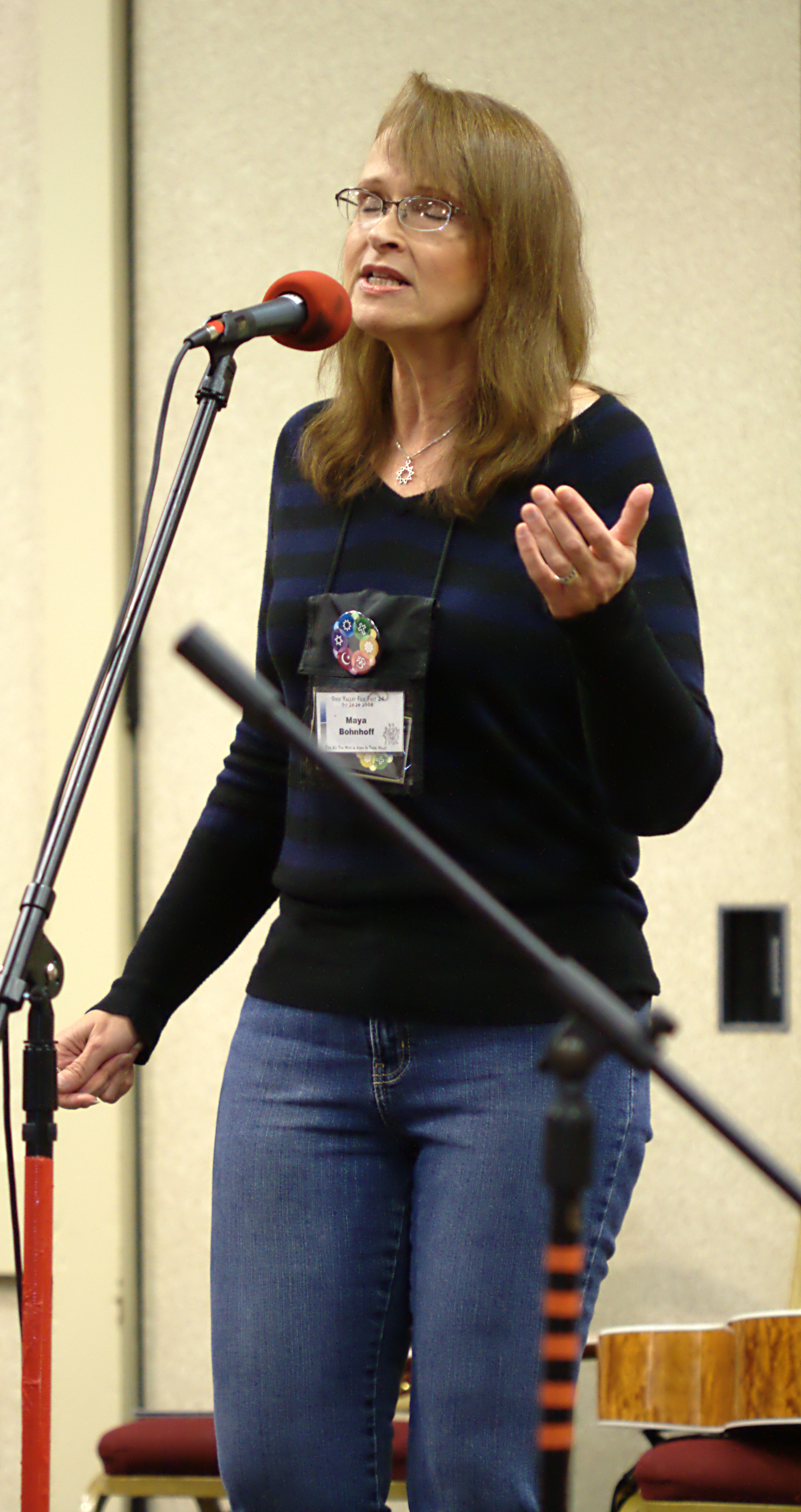 Maya Bohnhoff, performing at OVFF 2008